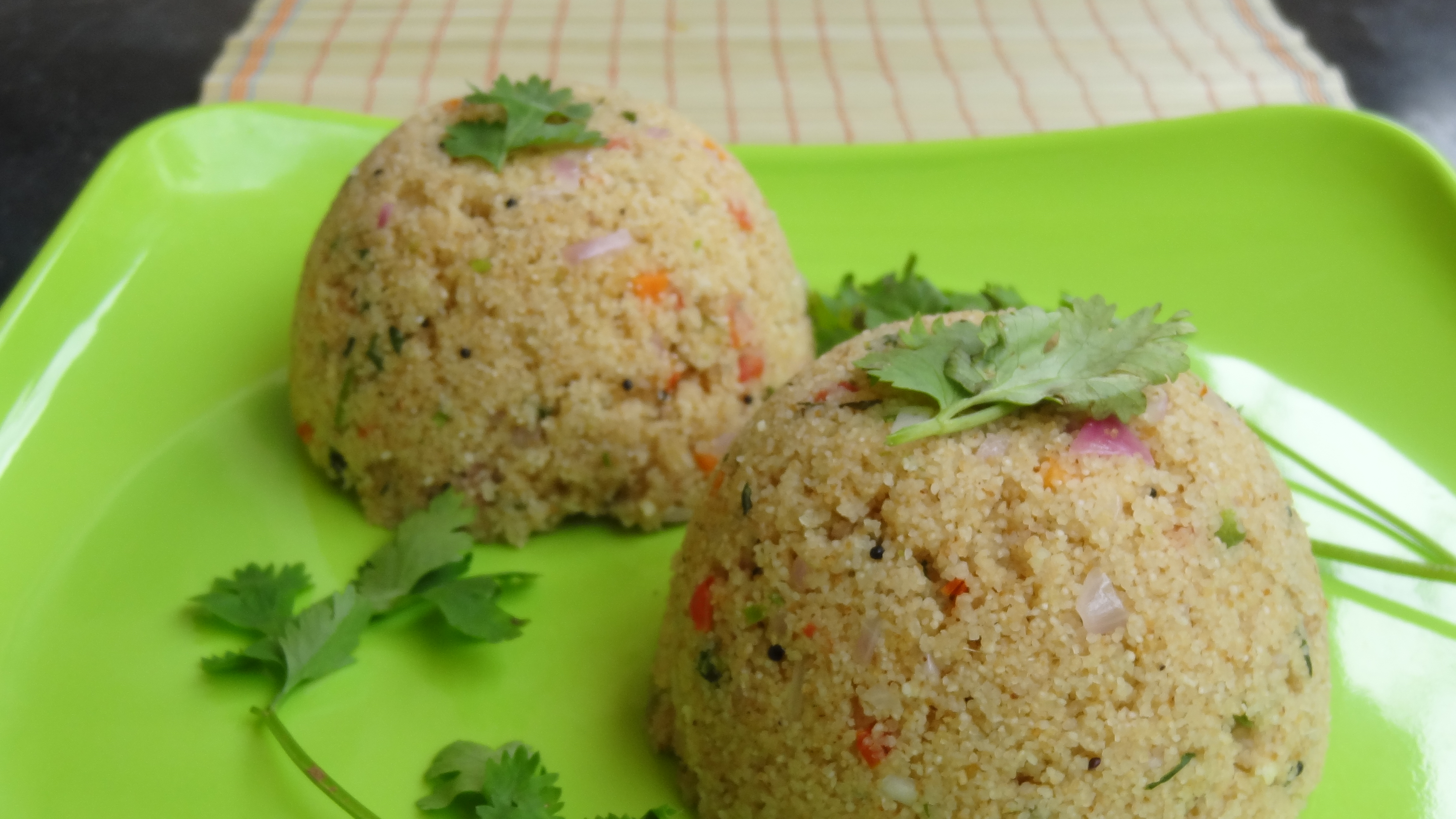 This is a very common breakfast dish in South India.